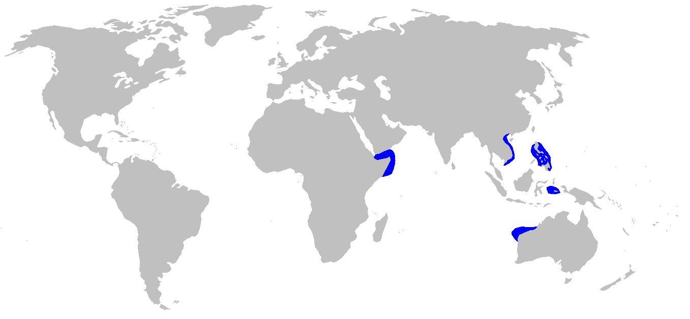 Distribution map for Halaelurus boesemani